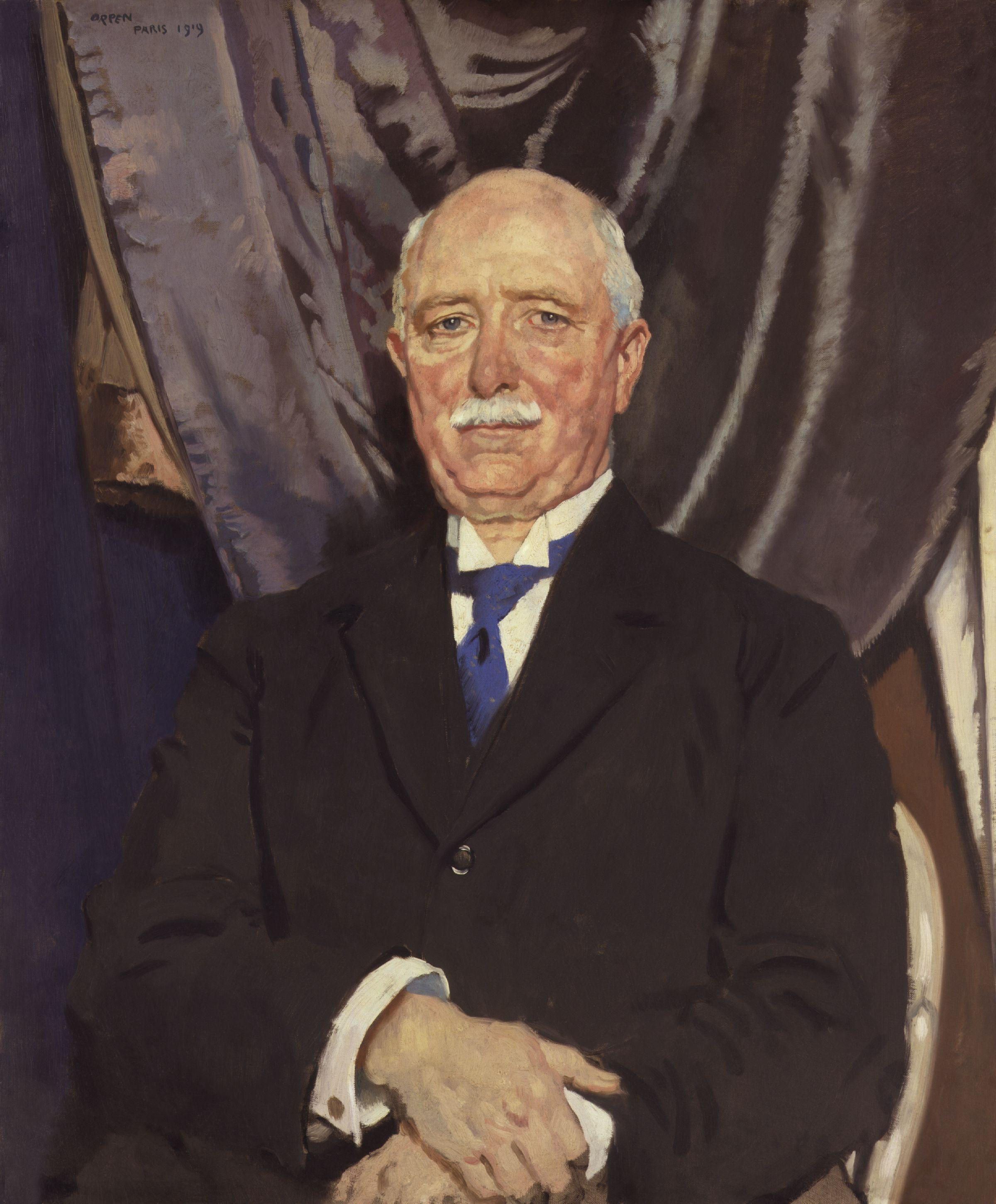 William Ferguson Massey, by Sir William Orpen (died 1931), given to the National Portrait Gallery, London in 1933. William Ferguson Massey (often known simply as Bill Massey or "Farmer Bill") served as Prime Minister of New Zealand from 1912 to 1925, and was the founder of the Reform Party. All images in this batch have been confirmed as author died before 1939 according to the official death date listed by the NPG.